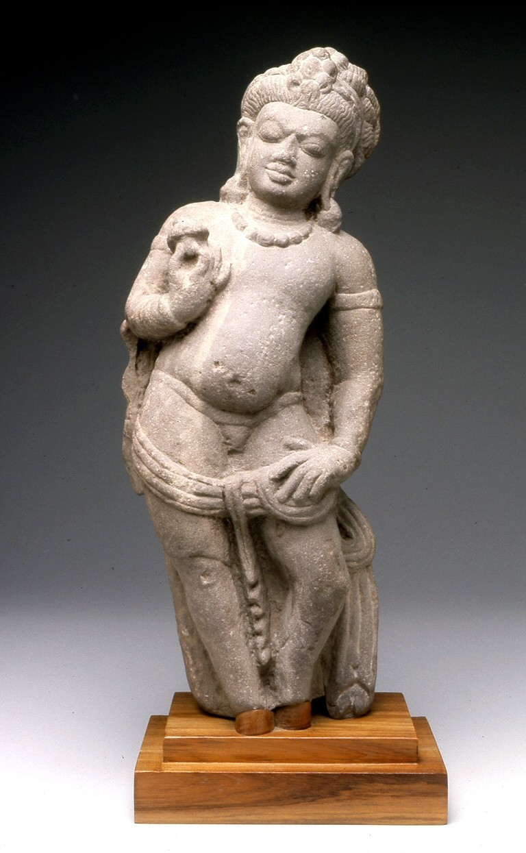 This jauntily yet elegantly posed figure with his body and facial features rounded into smooth contours stood beside a much taller image of the god Vishnu. Carrying a lotus (signifying the universe), he is an embodiment of the lotus the god Vishnu generally holds in the lower right of his four hands.